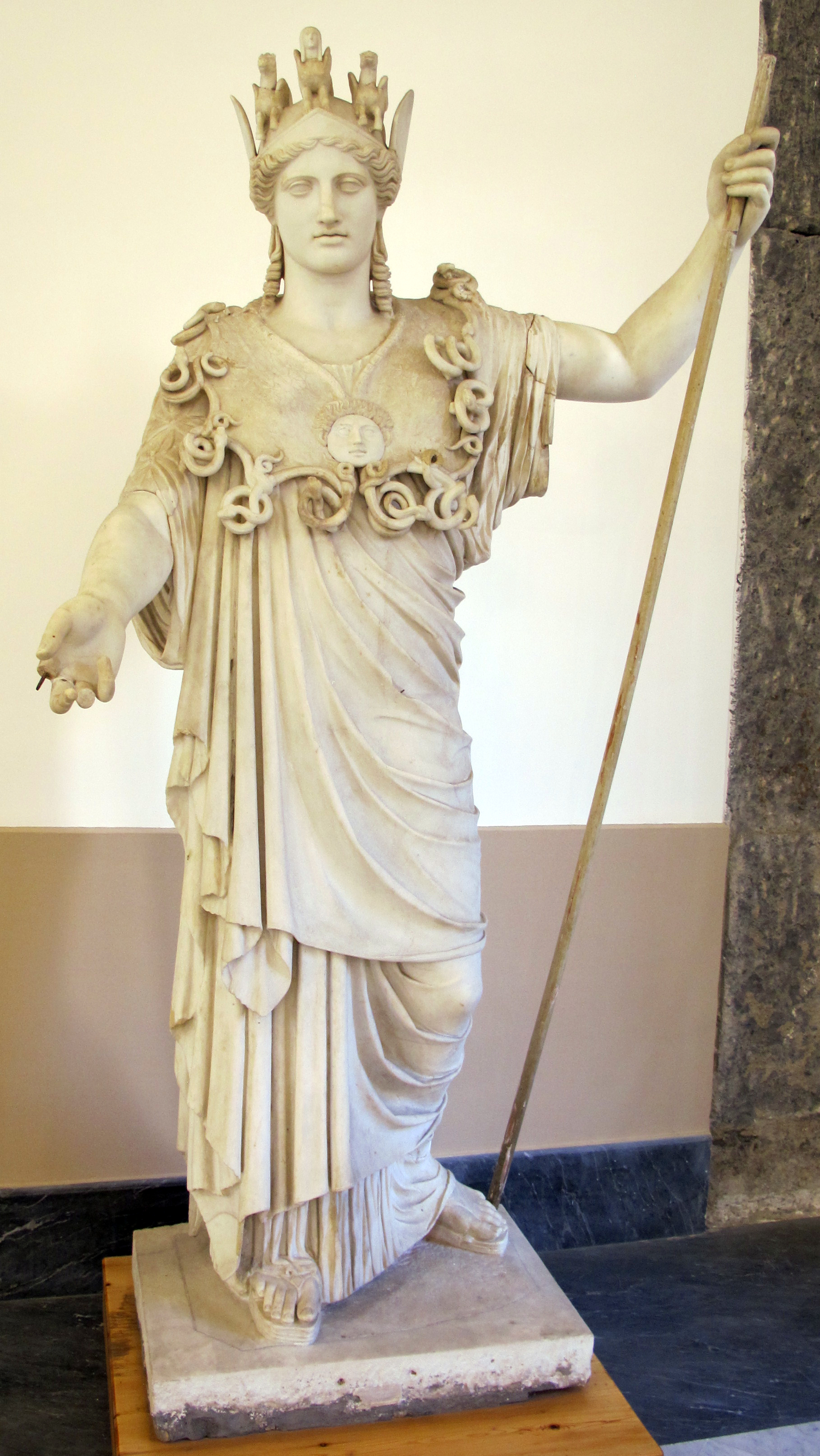 Ancient Roman statues in the Museo Archeologico (Naples)